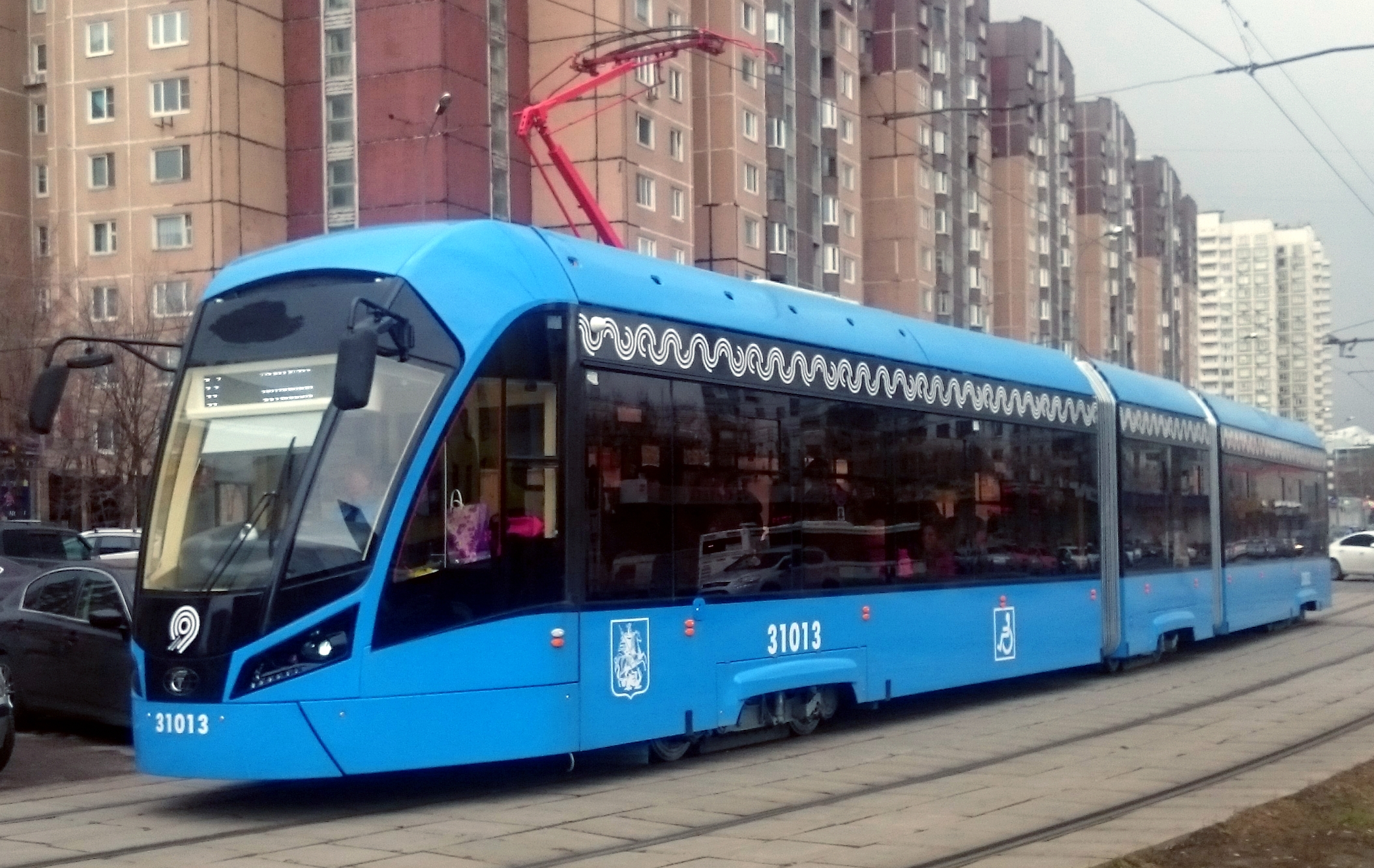 "Vityaz-M" tram in Moscow.